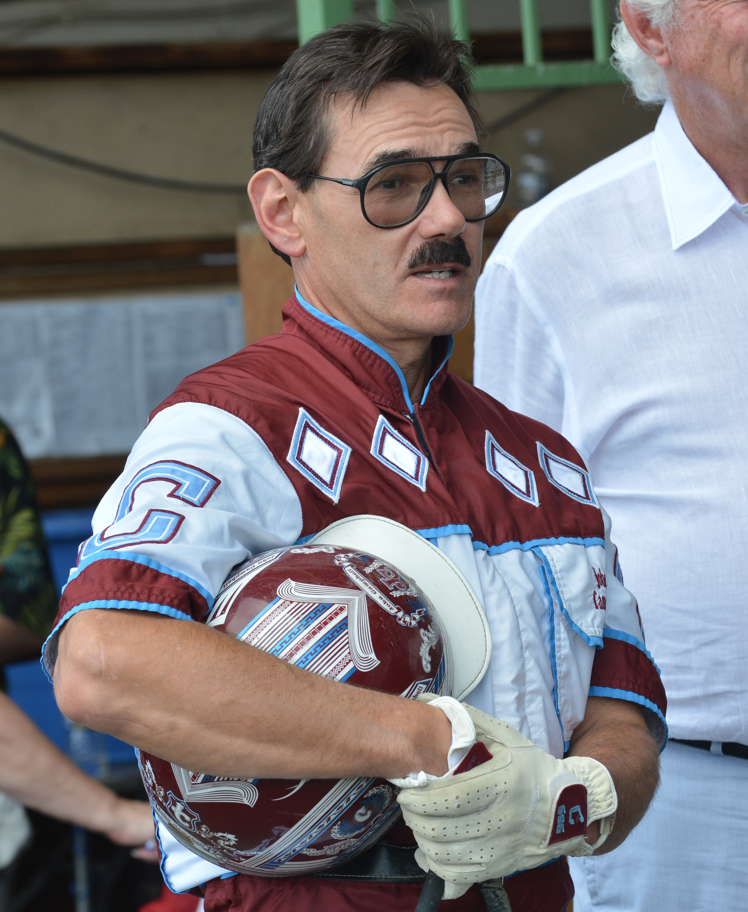 Canadian harness racer John Campbell at Meadowlands Racetrack in New Jersey.